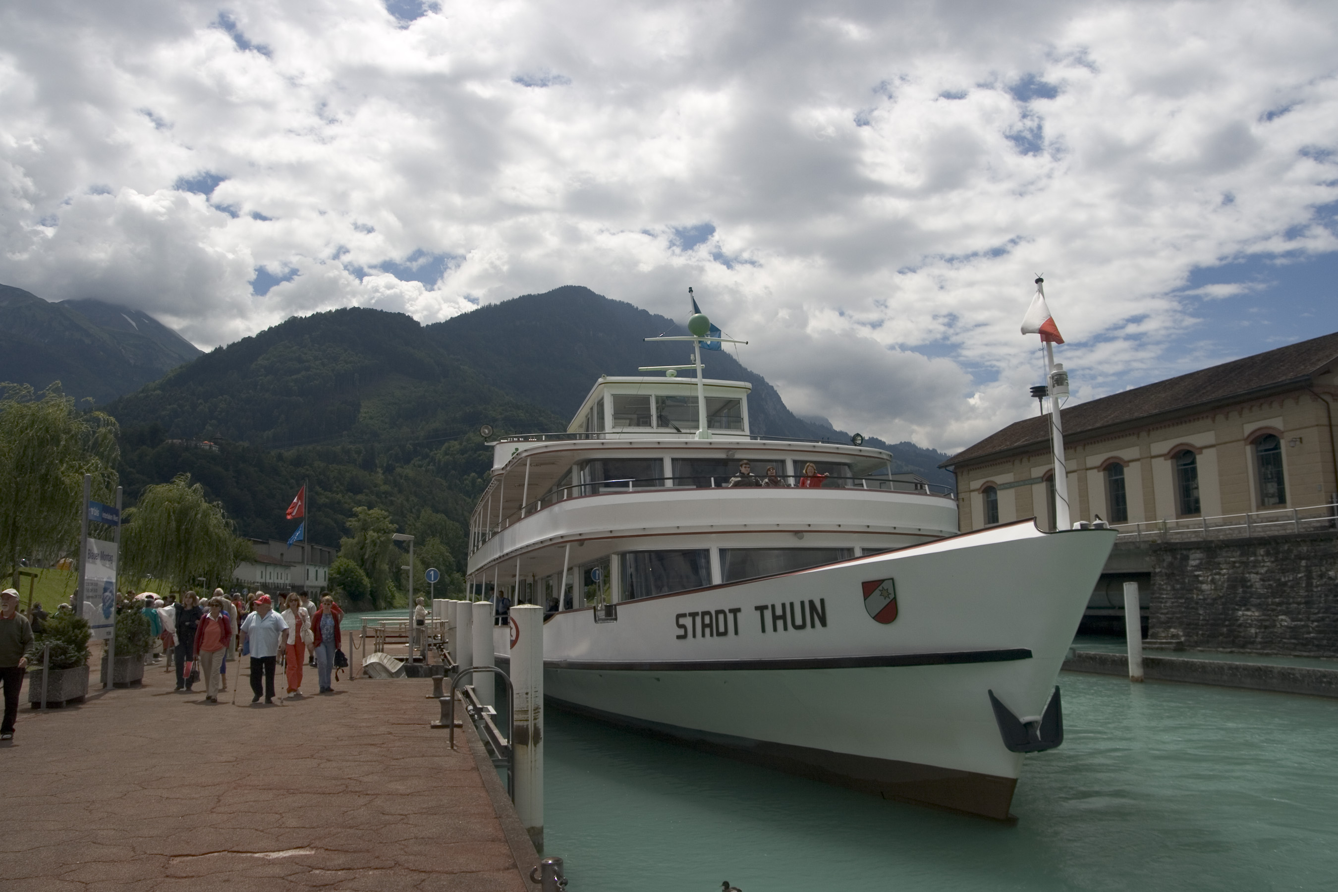 Lake Thun passenger ship Stadt Thun at the head of the Interlaken ship canal at Interlaken West station. For more information, see the Wikipedia articles Interlaken ship canal and Interlaken West railway station